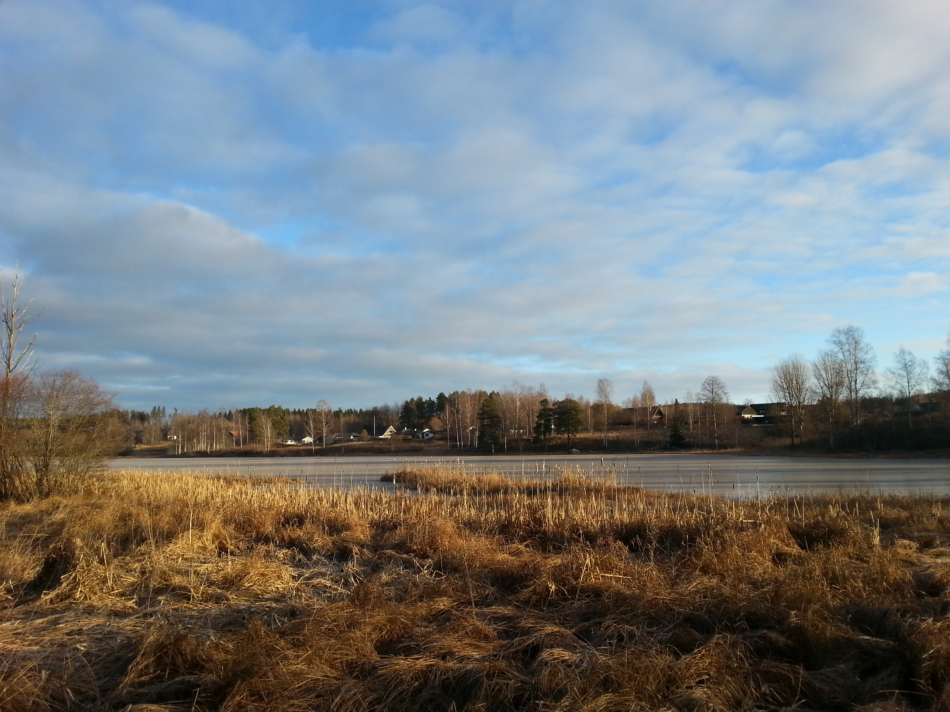 Melingssjön